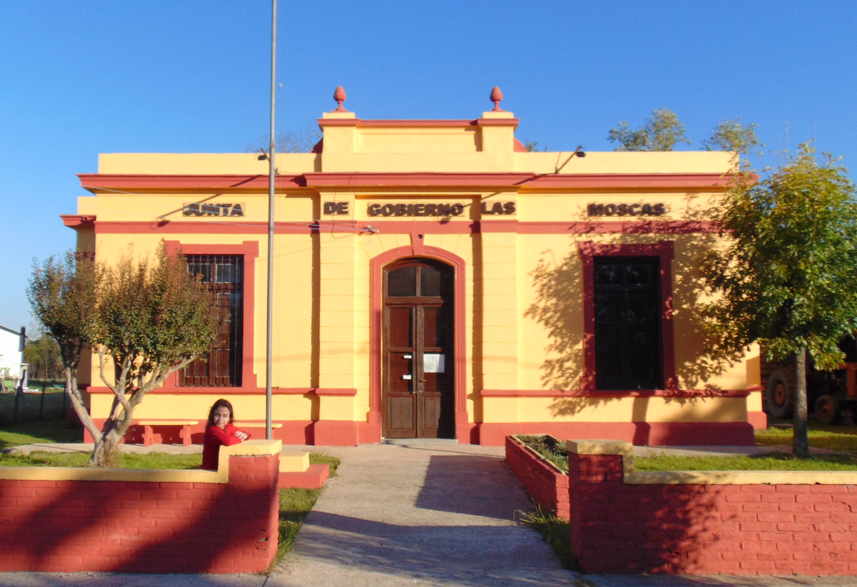 Las Moscas cityhall